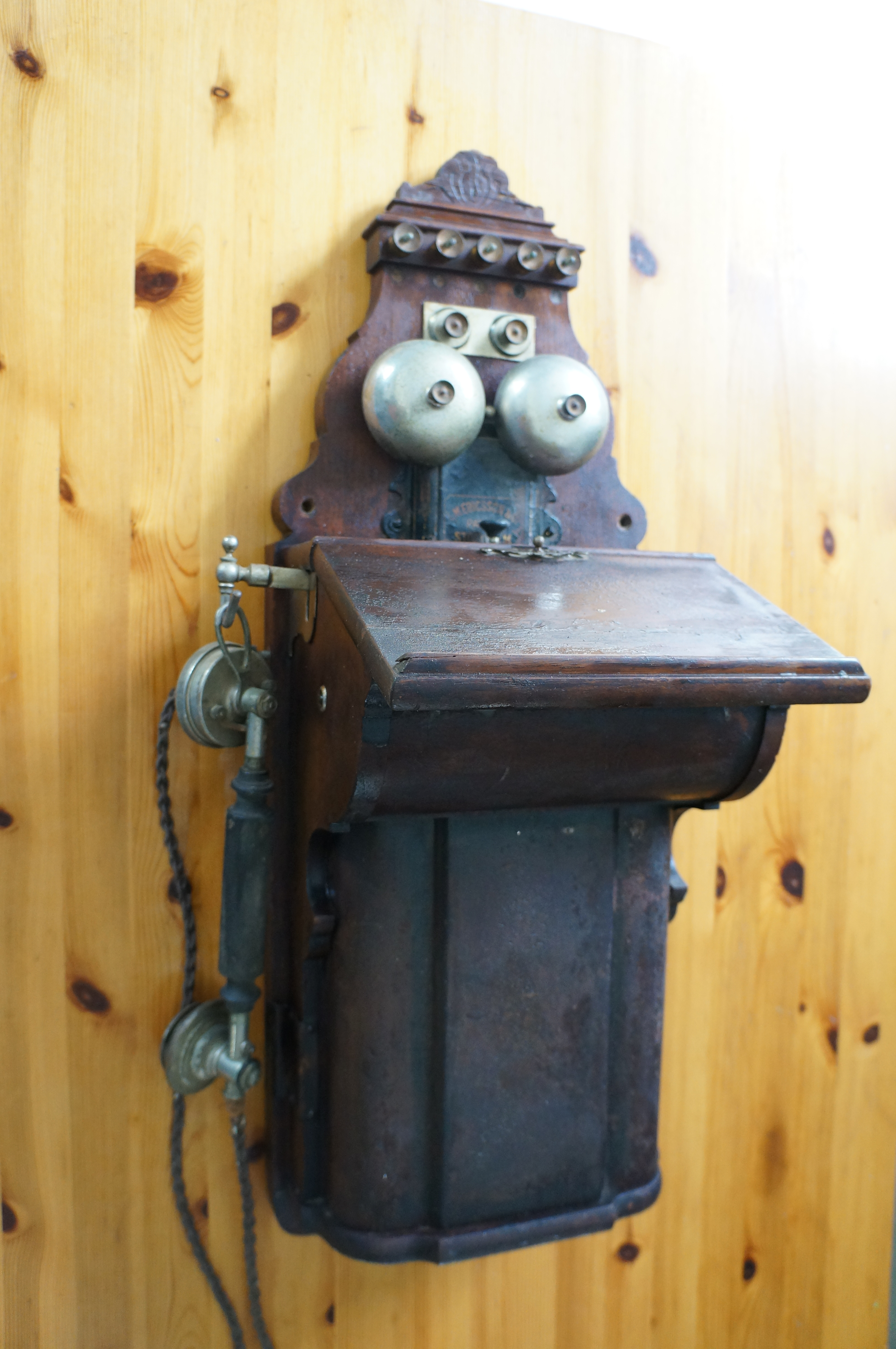 LM Ericsson - Magneto Telephone manuafactured in Stockholm Sweden. In use on the PMG (Australia) telephone network in the late 1800's to early 1900's (PMG= Post Master General)